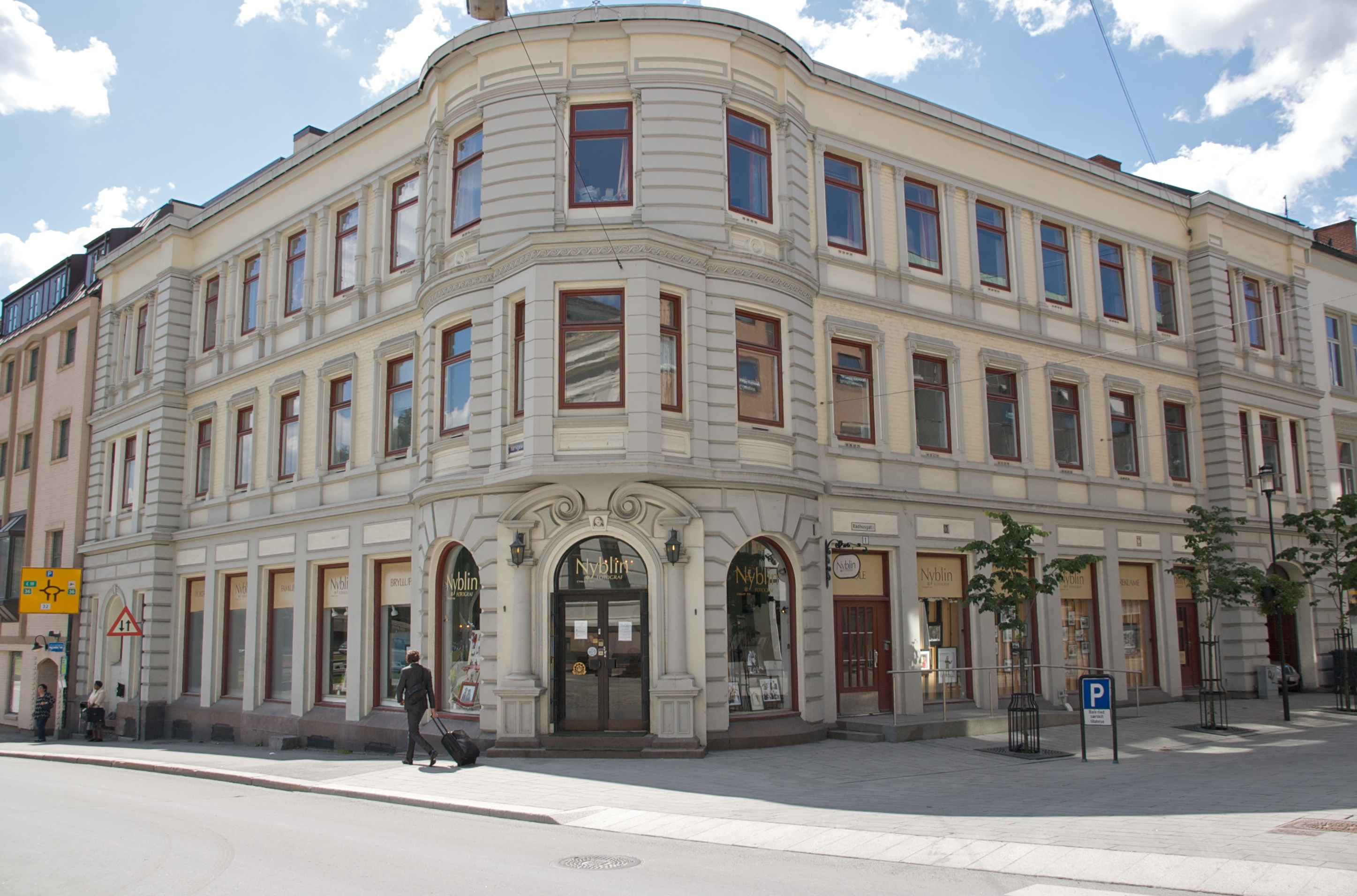 The "Augustin" building in Skien, Norway.